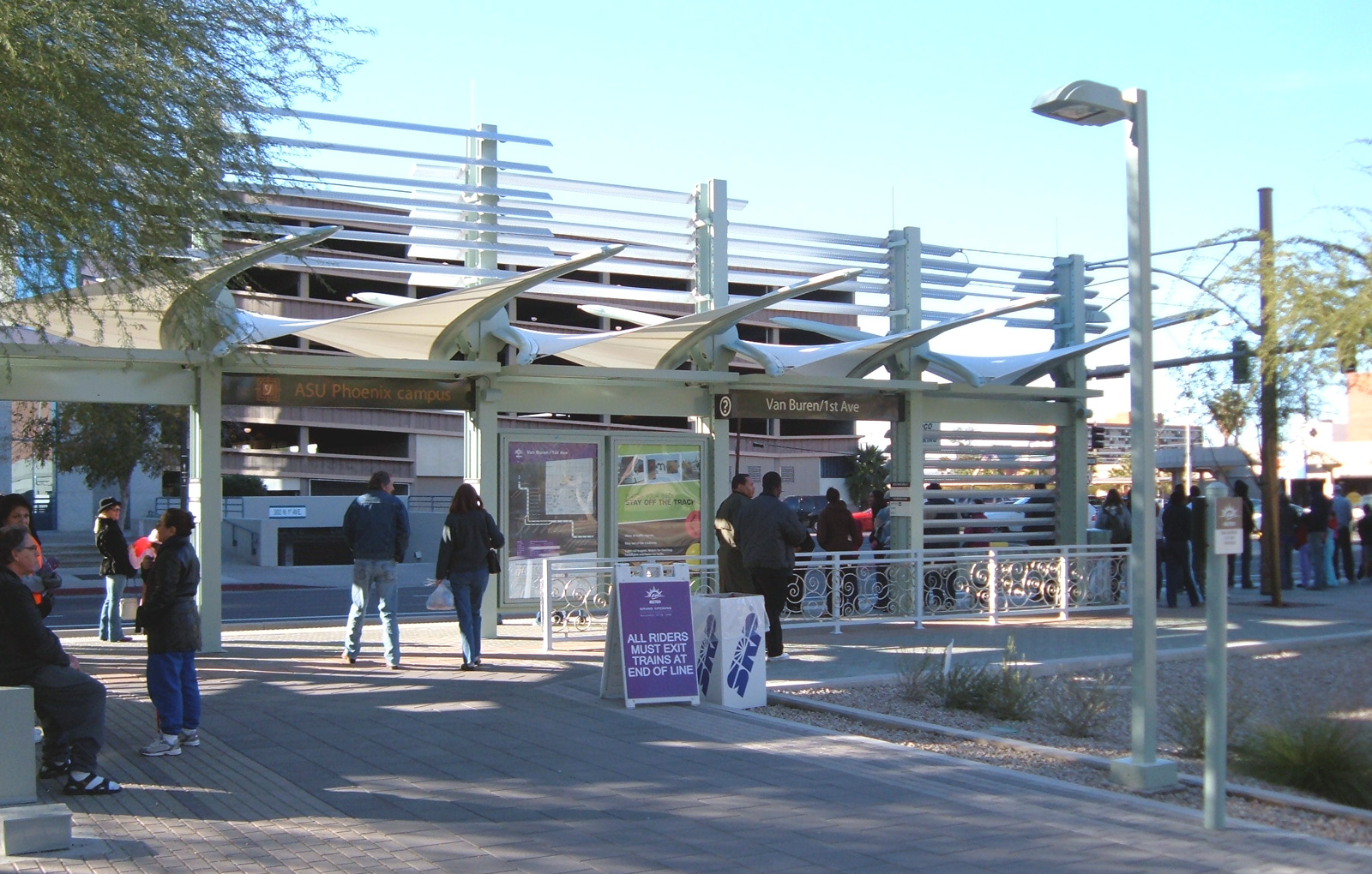 Photograph of the ASU Downtown Campus (or 1st Avenue at Van Buren) Station of METRO Light Rail that serves the Phoenix area, Arizona, USA. This is the southbound station, located about 400 feet west of the northbound station. This photograph was taken during the light rail's grand opening celebration on December 27, 2008.